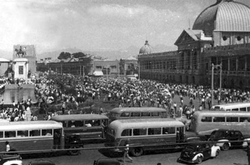 Tehran Toopkhaneh/Sepah Square (Imam Khomeini Sq.) Aug, 1953. Toodeh Party Demonstrations destabilized the political power of the democratic government of Dr. Mohammad Mosaddegh leading to the coup that brought back the Shah.